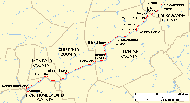 Map of Lackawanna and Bloomsburg Railroad in Northumberland, Montour, Columbia, Luzerne and Lackawanna Counties, Pennsylvania, United States. Historic railroad from 1856 to 1873, then became part of the Delaware, Lackawanna and Western Railroad.